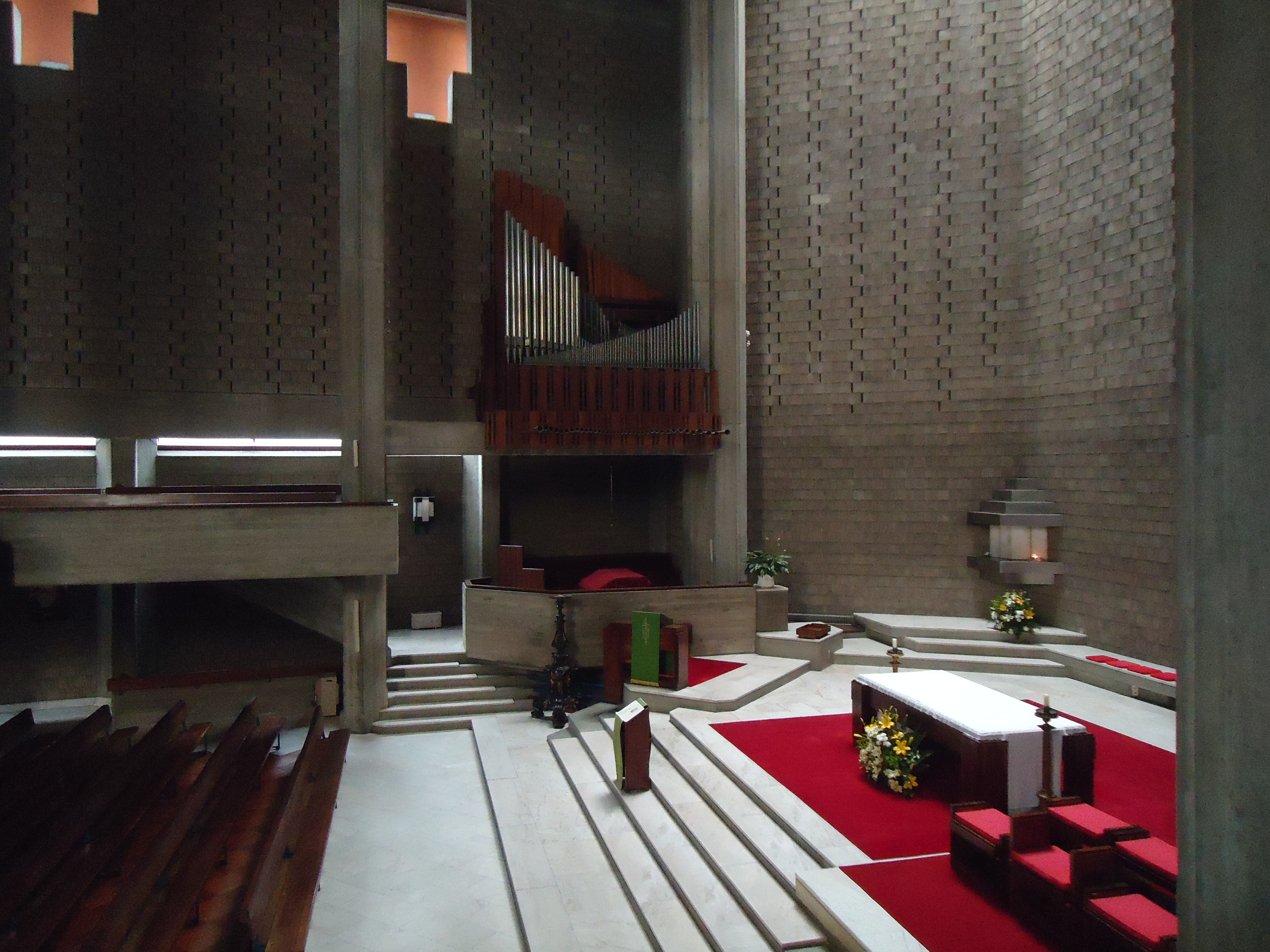 Altar and organ of the Sagrado Coração de Jesus Church in Lisbon